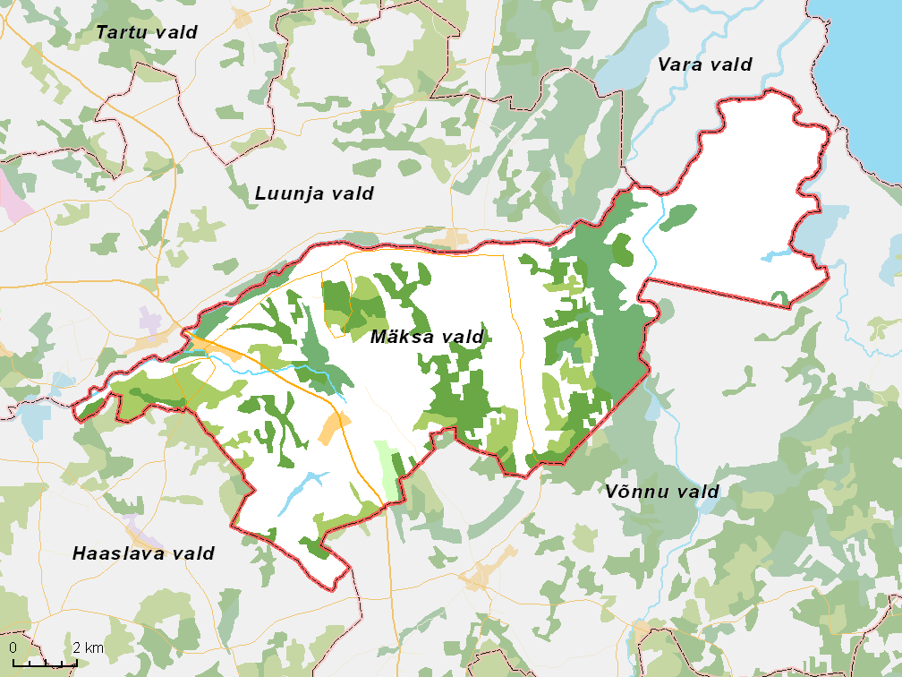 Map of municipality in Estonia